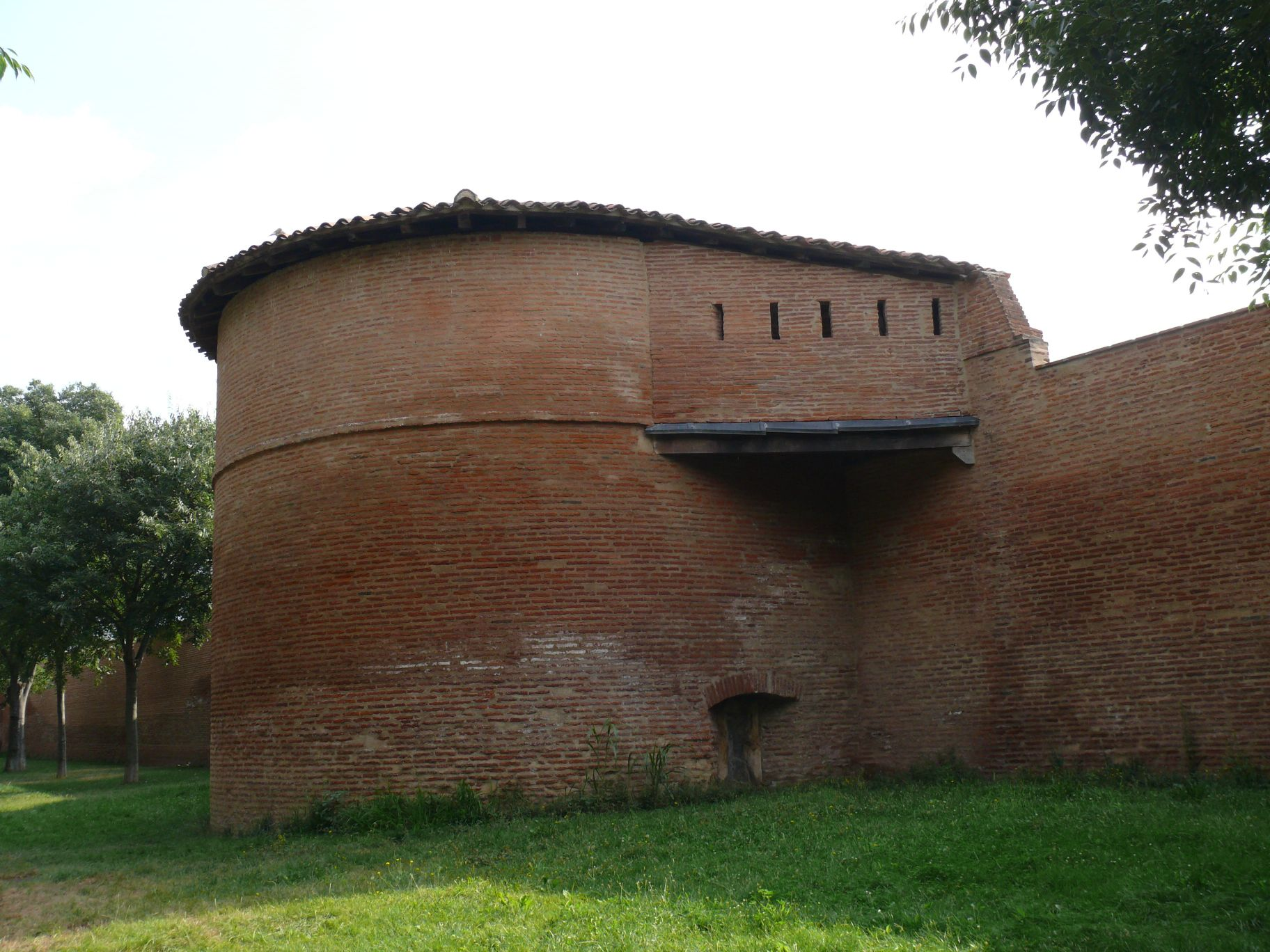 The medieval remparts of Toulouse, boulevard Armand Duportal (Haute-Garonne, Midi-Pyrénées, France).